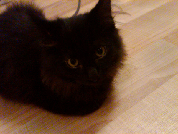 York Chocolate Kitten (8 weeks)